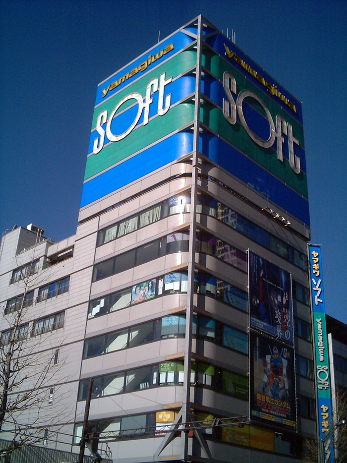 Yamagiwa Soft Shop, Akihabara, Tokyo, Japan